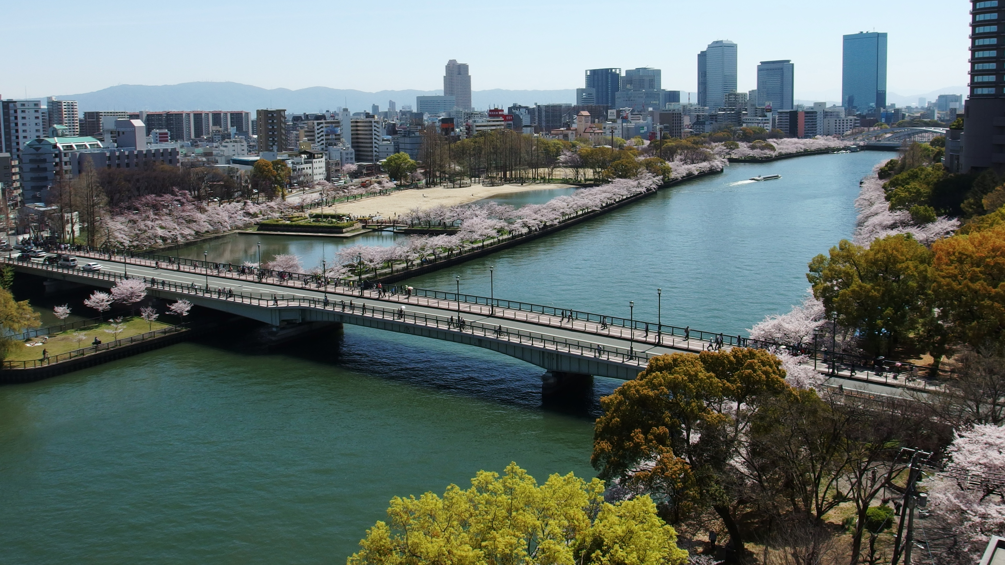 Gempachi Bridge in Osaka, Osaka Prefecture, Japan